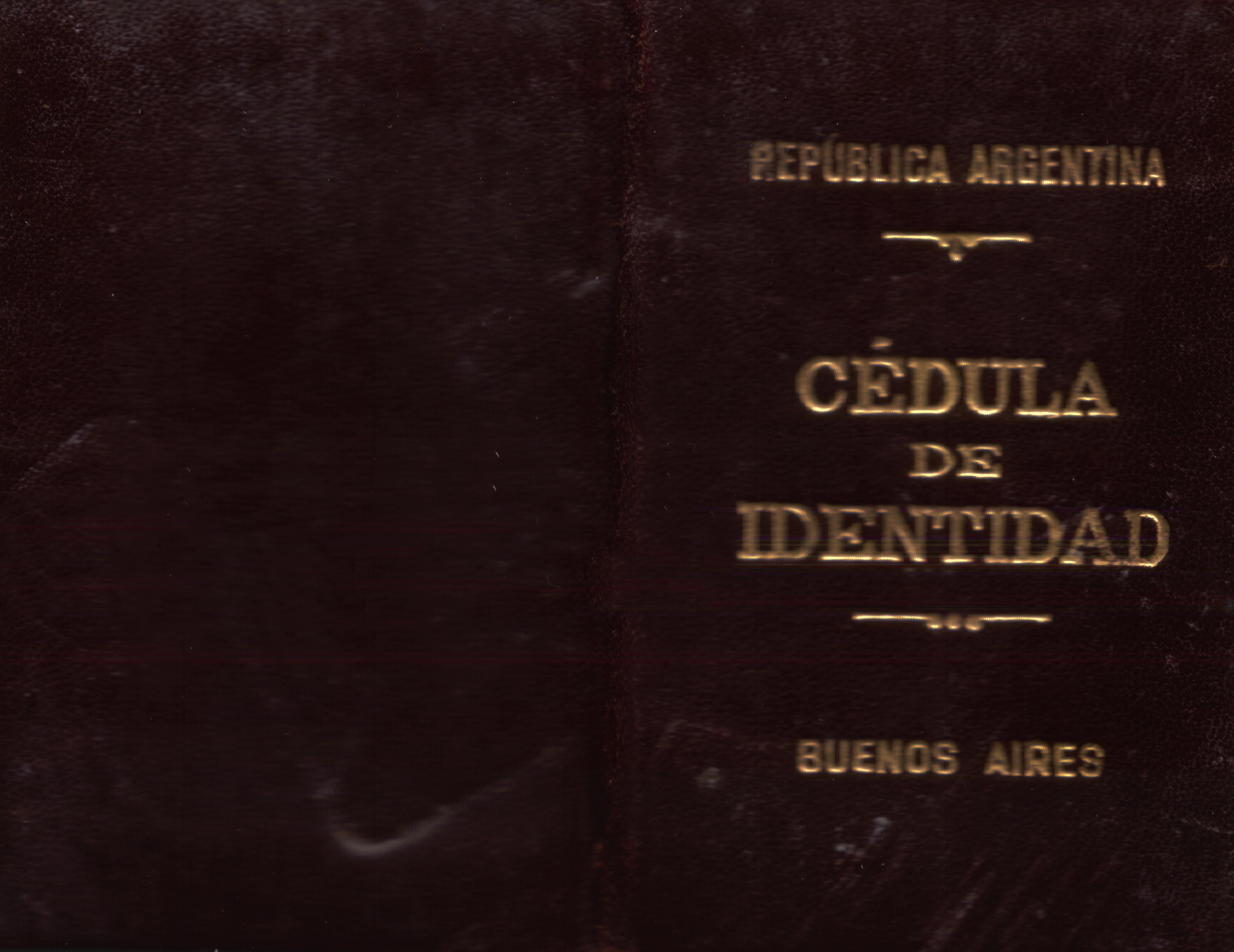 Cedula de Identidad - Argentinien - Buenos Aires - 1934 - Bild 001